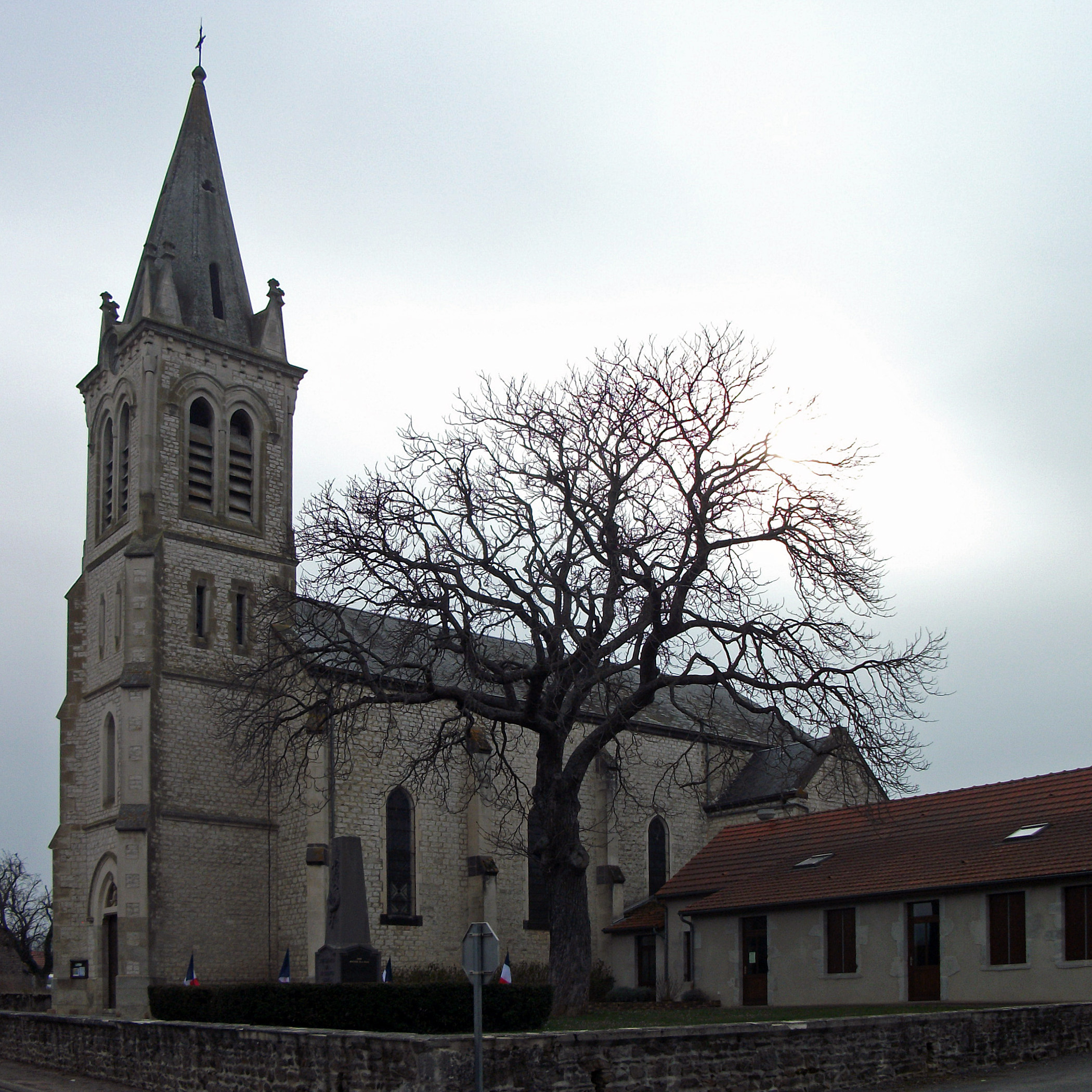 Church of Saint-Quintin-sur-Sioule [10531 retouched]